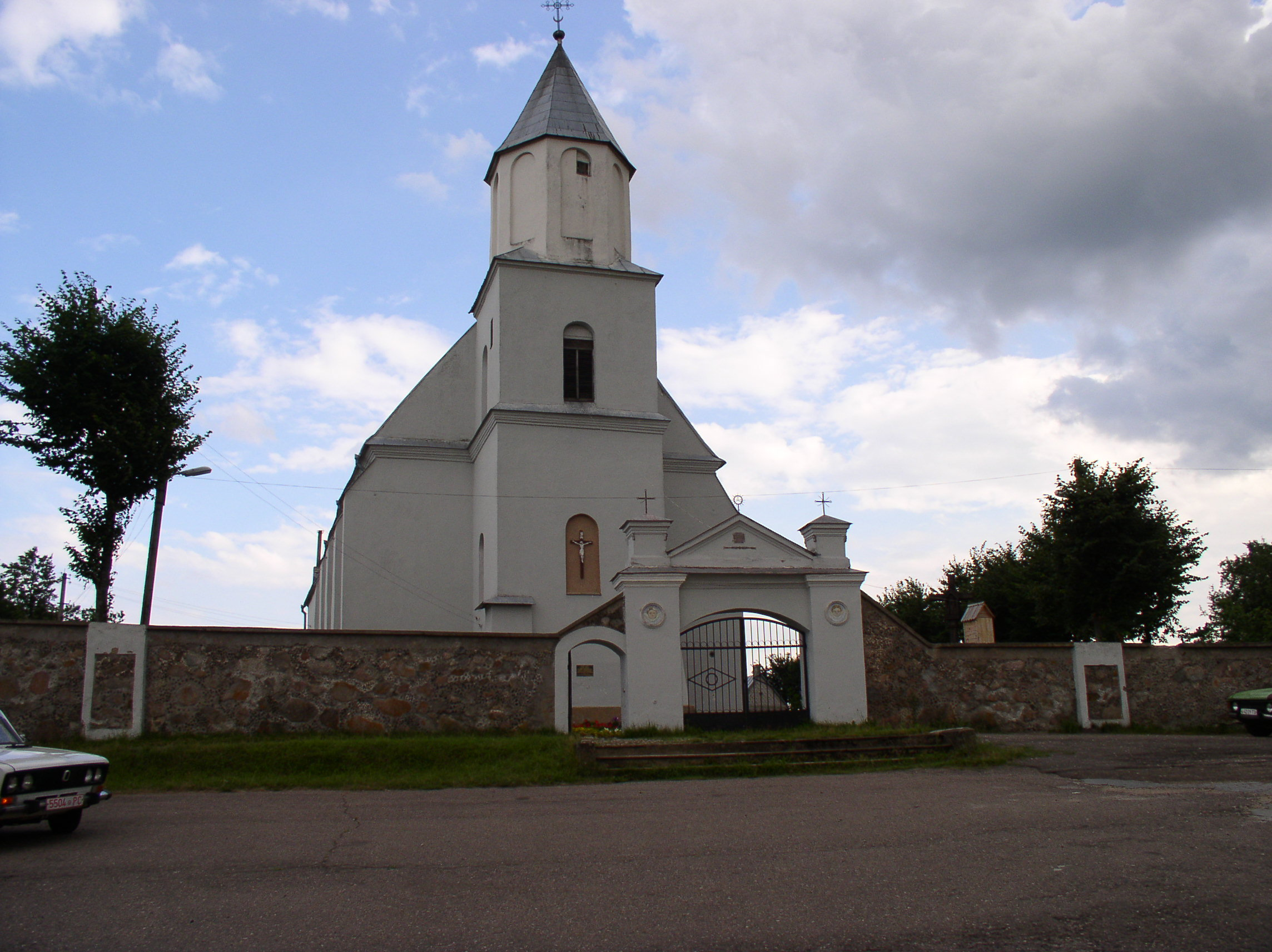 Church of the Annunciation of the Virgin Mary, Dzyerawnoe, Belarus.